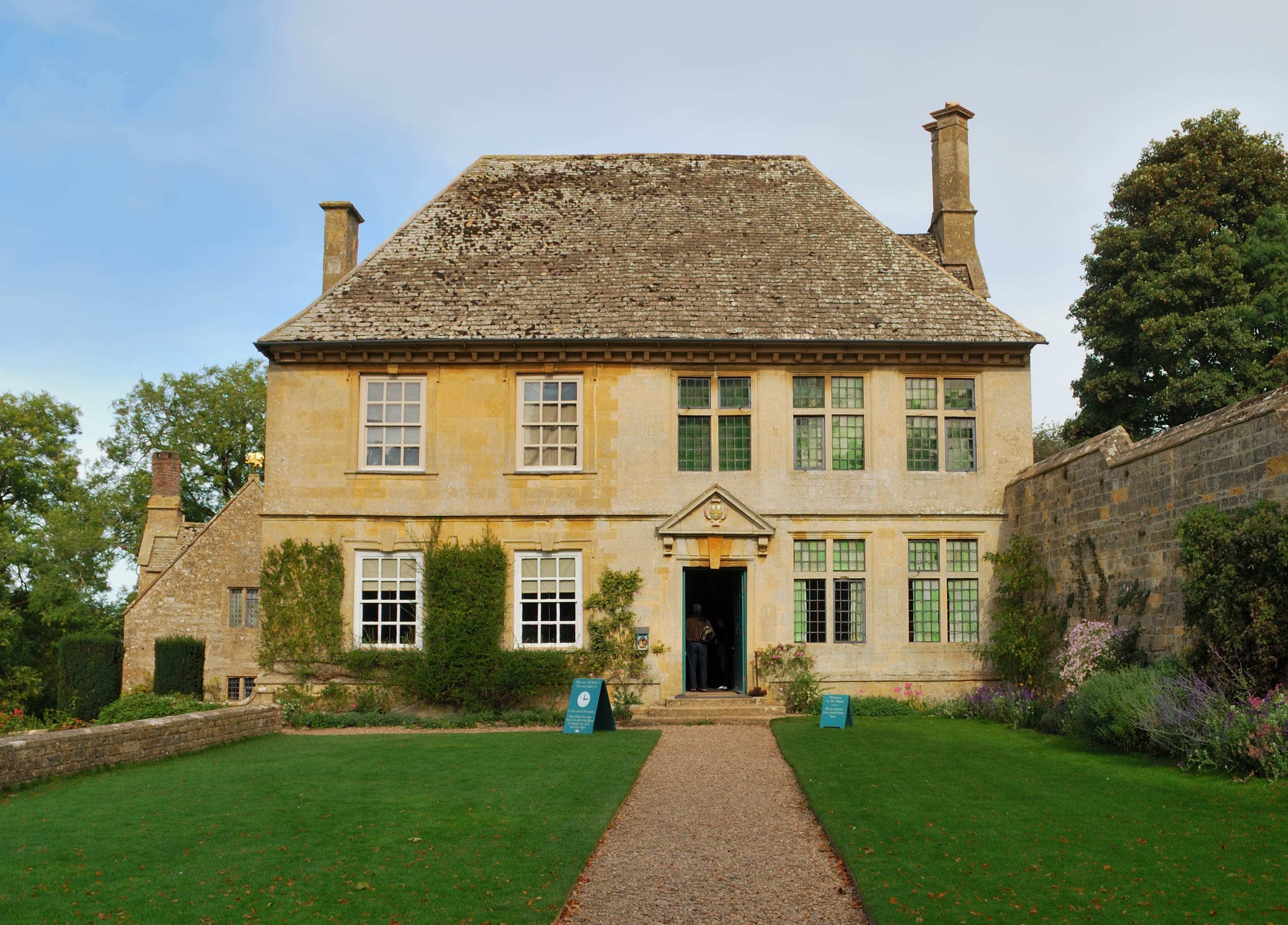 Snowshill Manor, October 2014